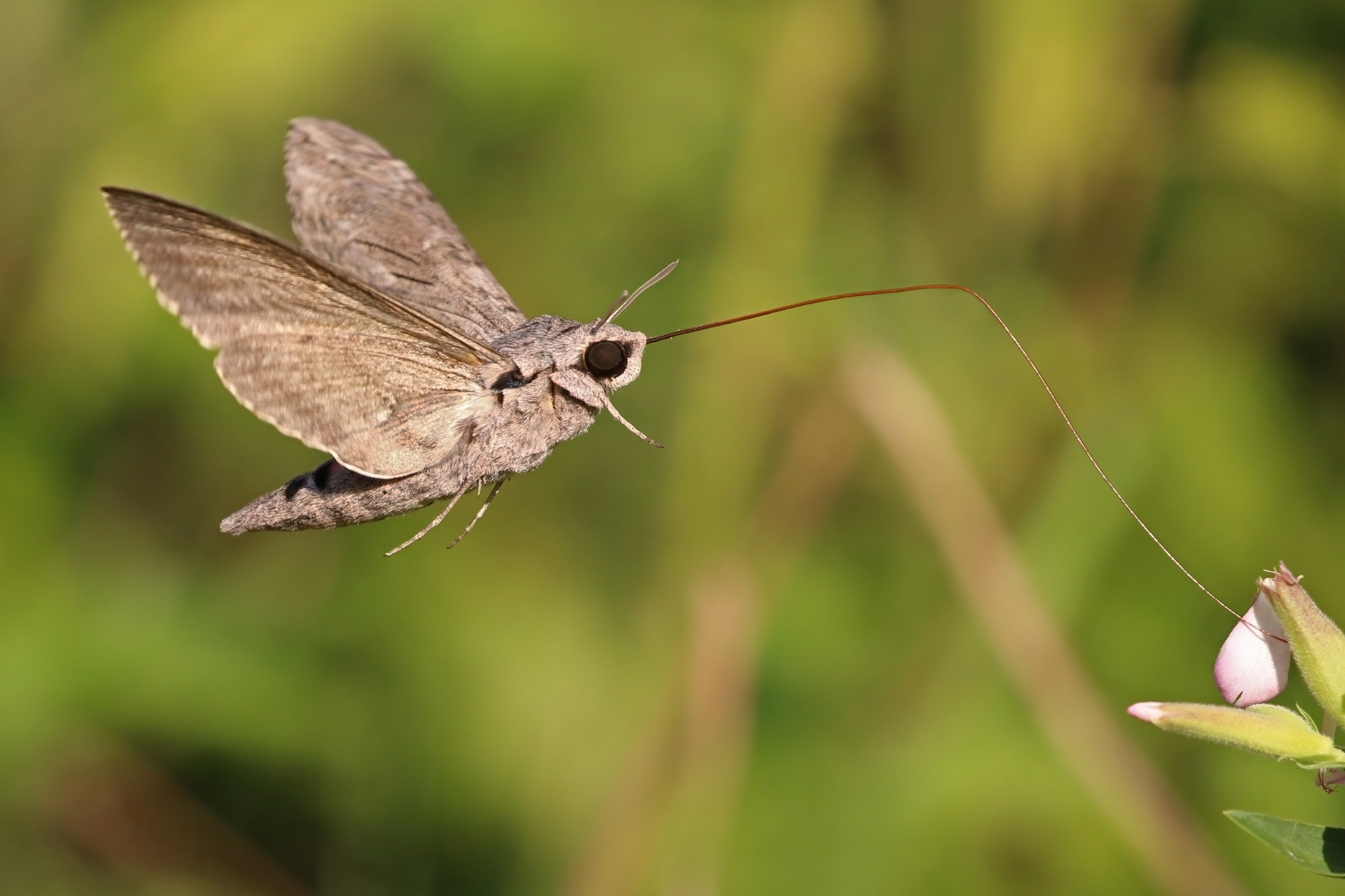 Convolvulus hawk moth (Agrius convolvuli), Gorski kut, Rila Monastery, Bulgaria